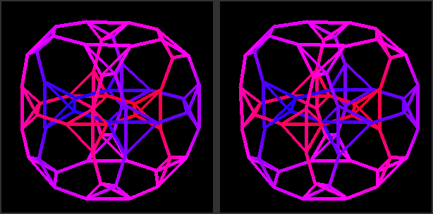 I created this image with a computer program that I wrote for the purpose. It is a stereoscopic 3D projection of a truncated tesseract with coloring ranging from red to blue to represent a point's position along the fourth axis.